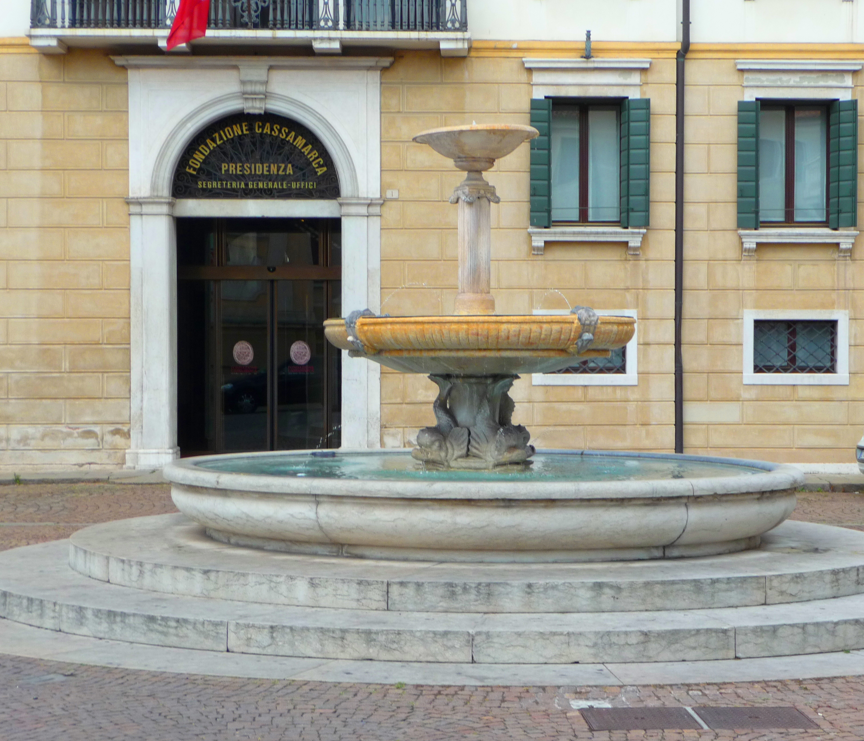 Ca Spineda and Fountain in Piazza San Leonardo, Treviso (IT)